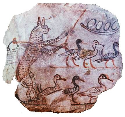 Drawing on limestone of a scene from a fable, Ancient Egyptian, 19th dynasty, c1120 BC. A cat with a shepherd's crook and a bag over his shoulder guards six geese and a nest of eggs. From the Cairo Museum. Egyptian Museum, upper floor, room 24, JE 63801 (H= 11 cm)